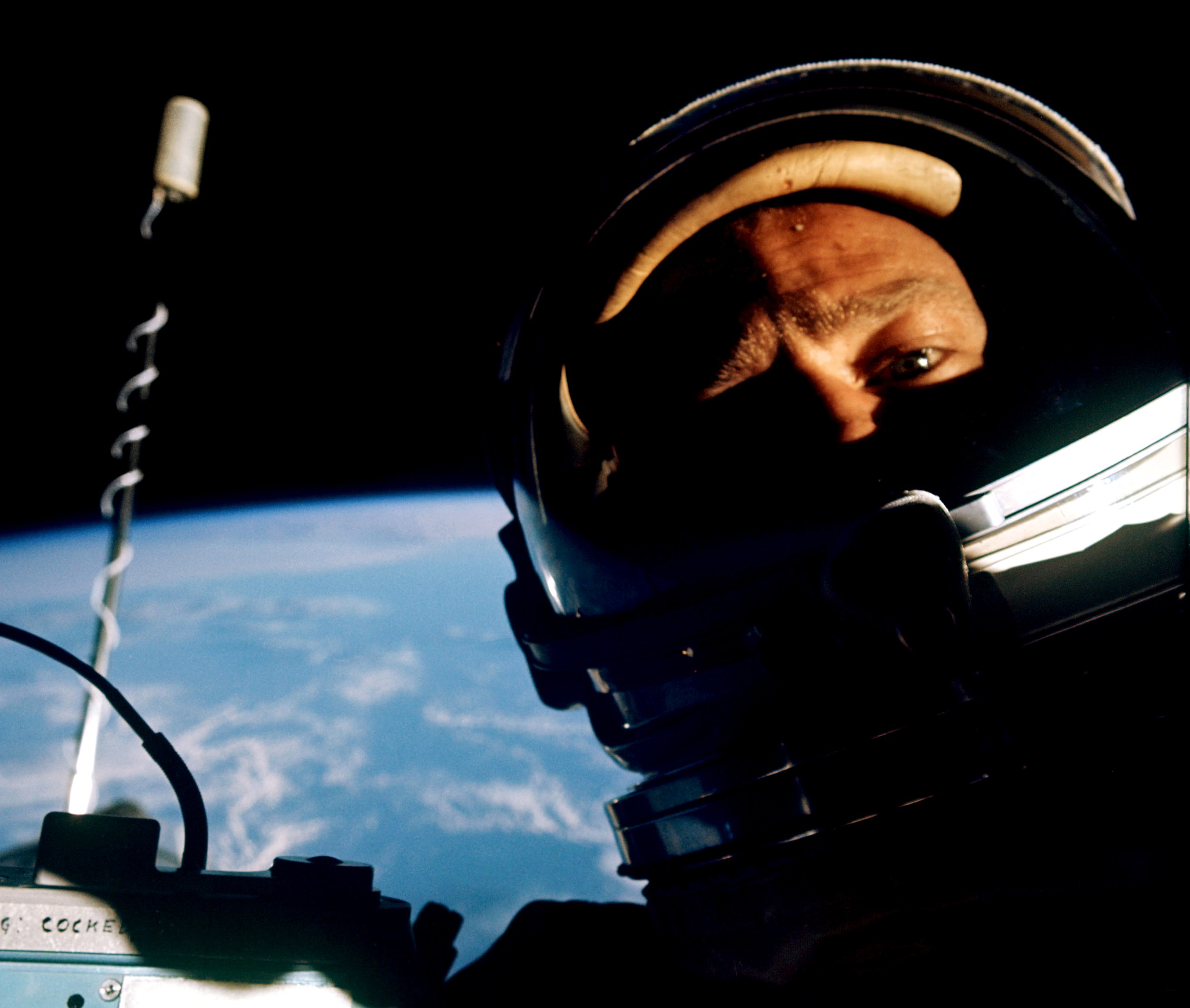 Buzz Aldrin taking a selfie during the Gemini 12 EVA (extra-vehicular activity) in 1966.